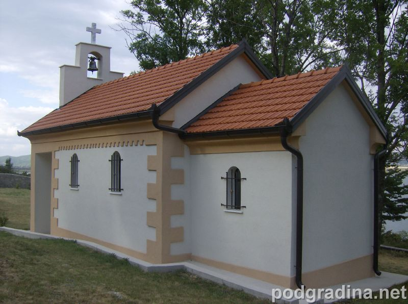 St. Elijah church, Rešetarica